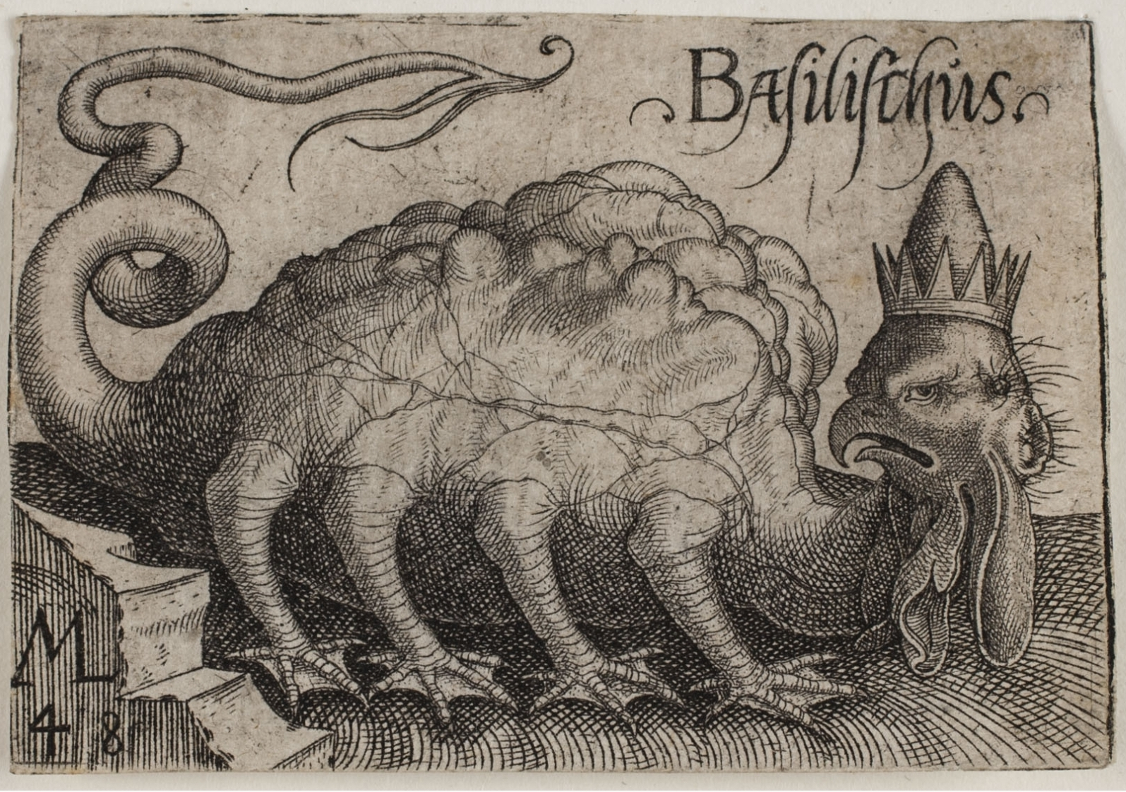 Melchior Lorck: "Basilischus" (Basilisk), etching 42 x 62 mm, made in 1548